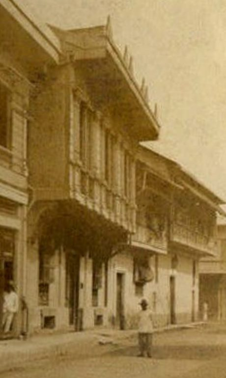 Boix House scene during the 1900s